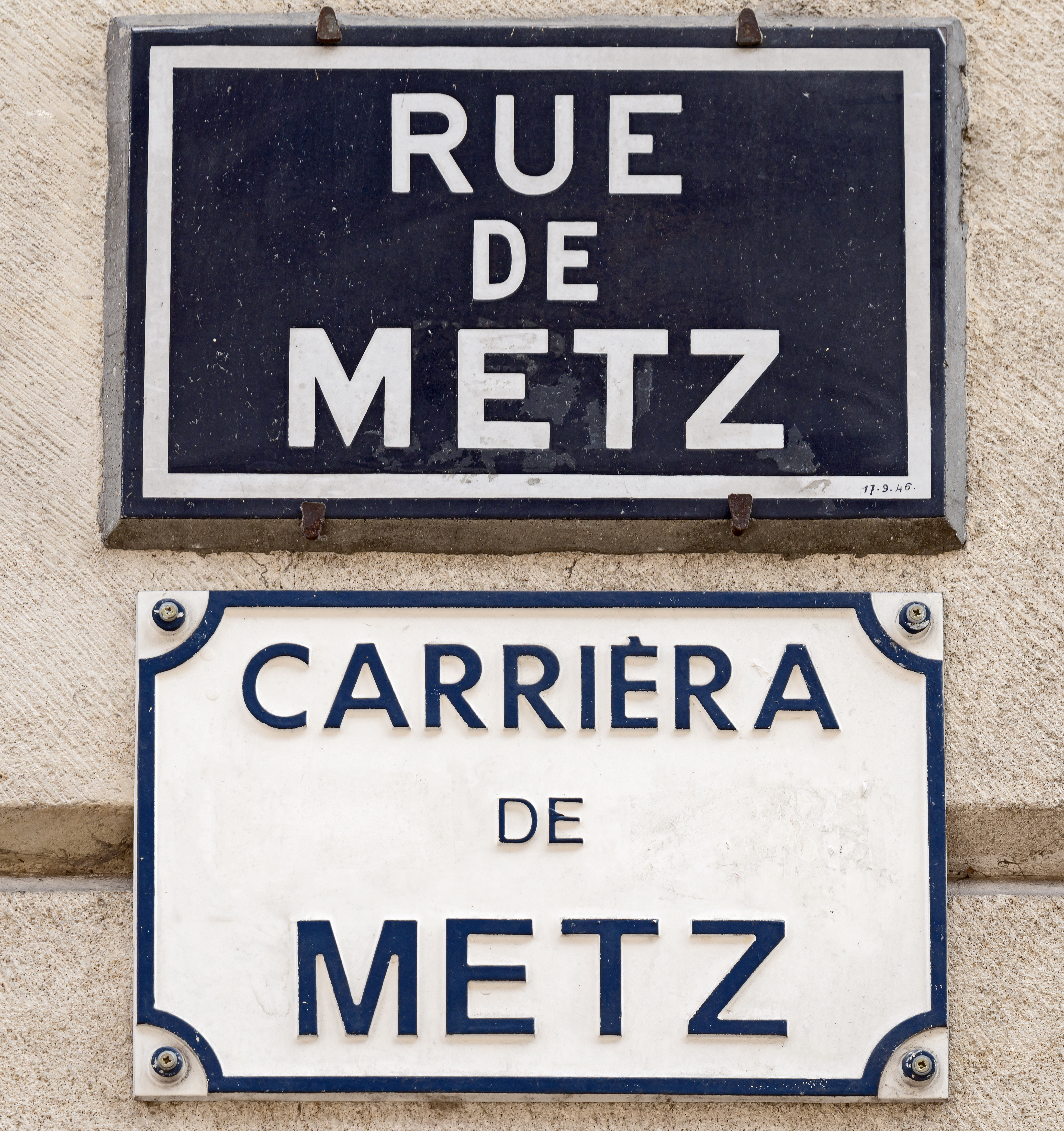 Street name sign in Toulouse. They have the particularity of being: in French and Occitan. Rue de Metz.